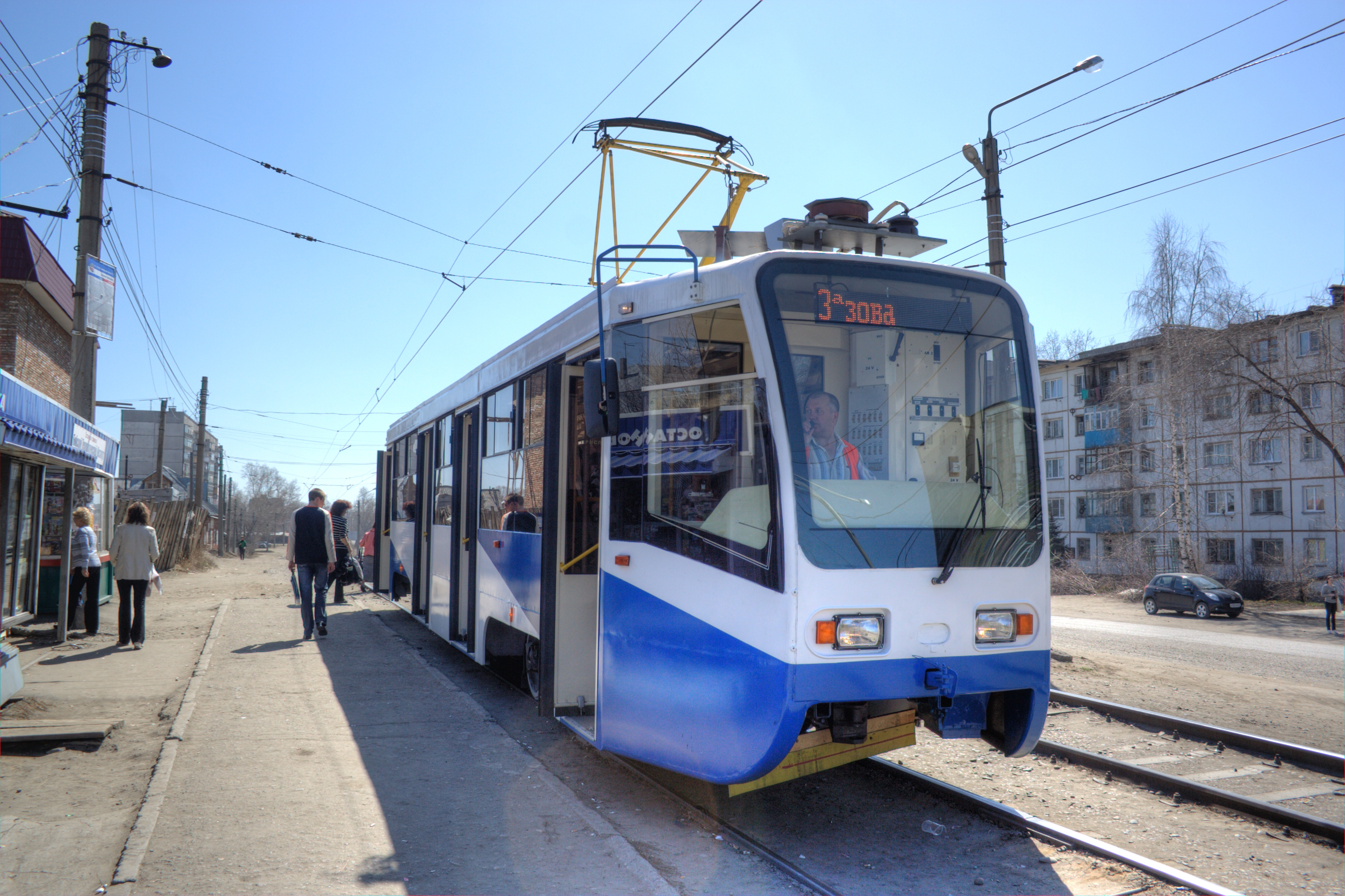 Tram type 71-619 in Biysk.